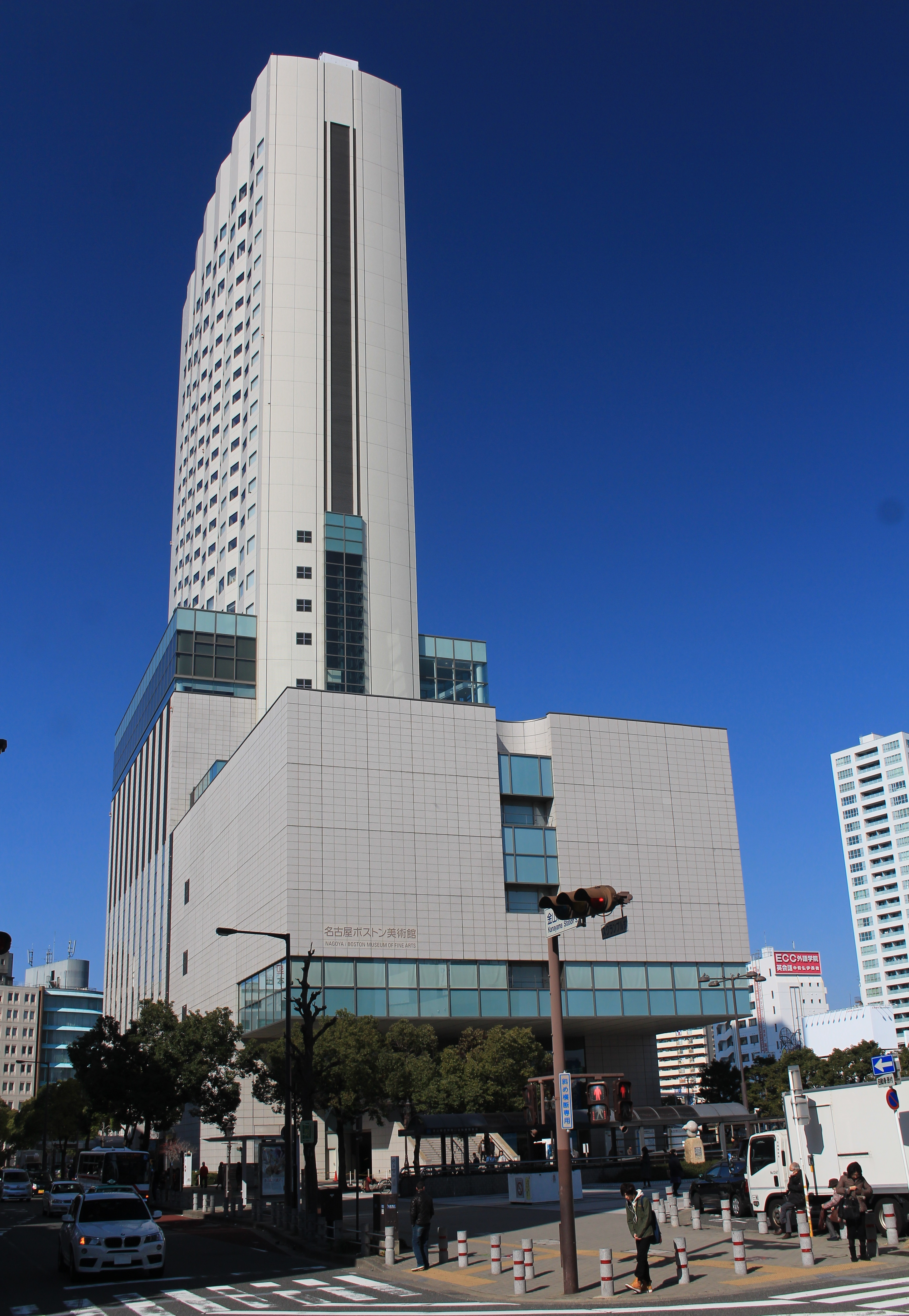 Kanayama Minami Building in Naka-ku, Nagoya, Aichi, Japan.